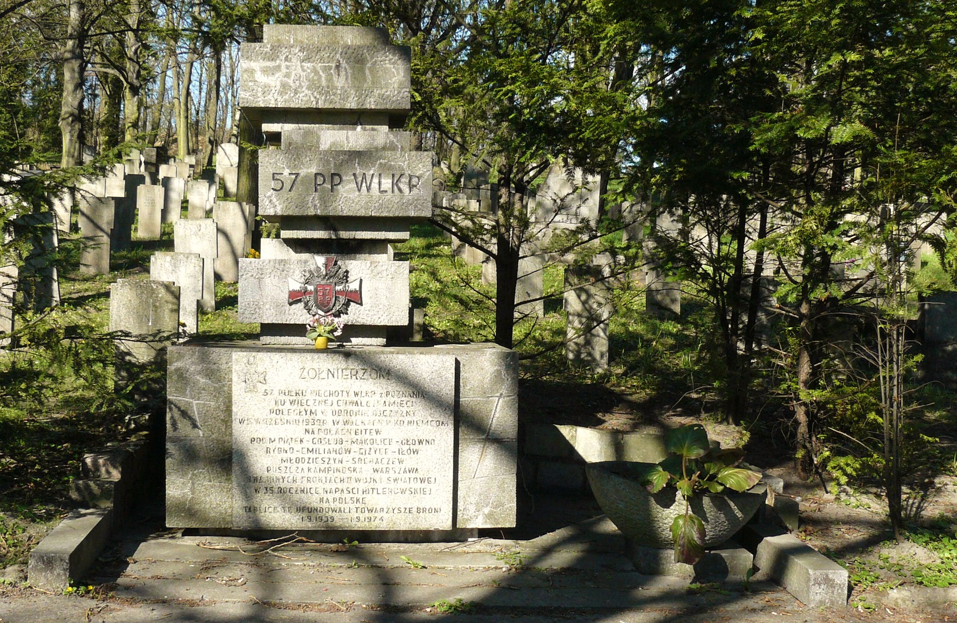 57. Greater Poland Regiment - Monument, Poznan.